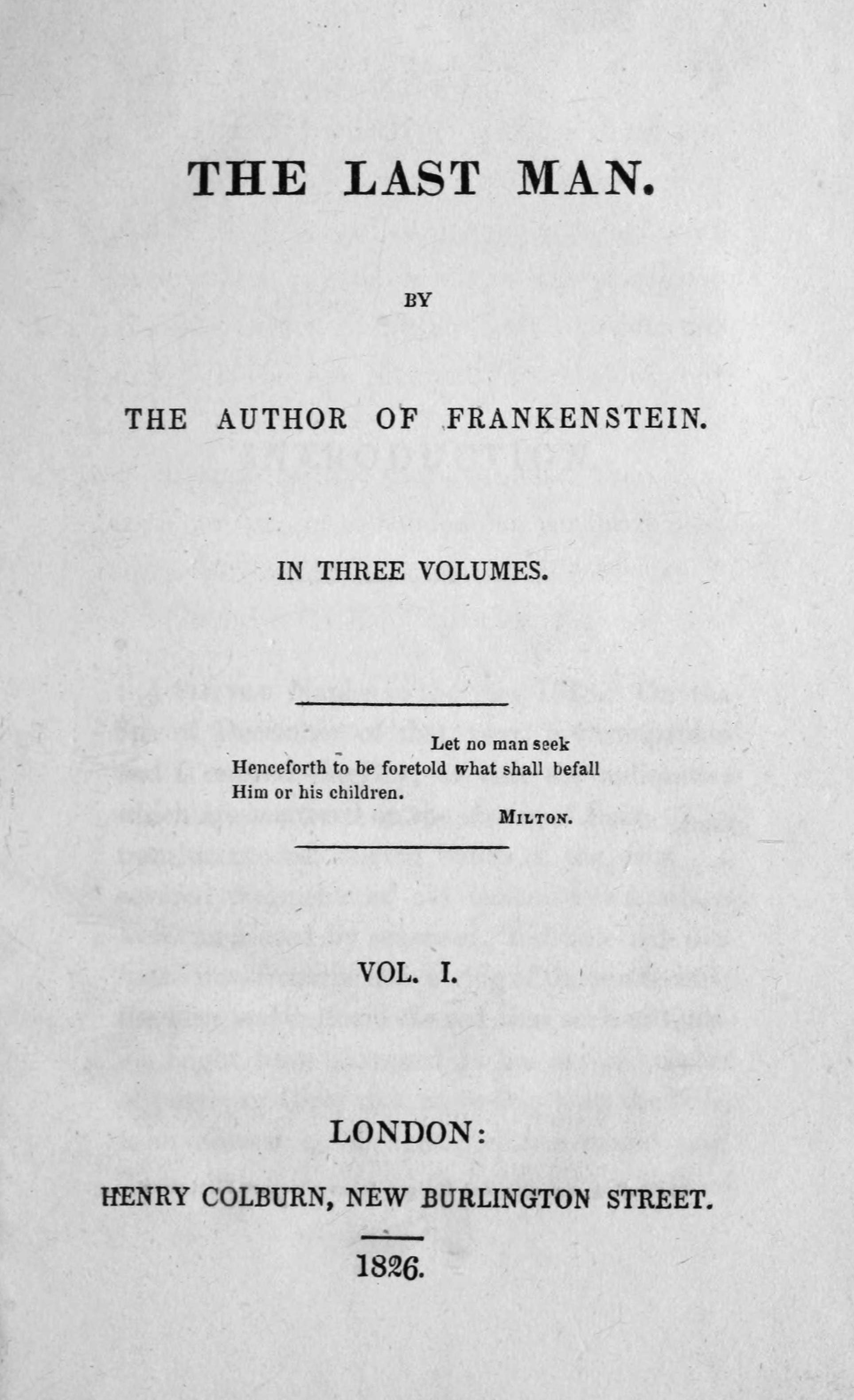 The Last Man 1st ed title pg